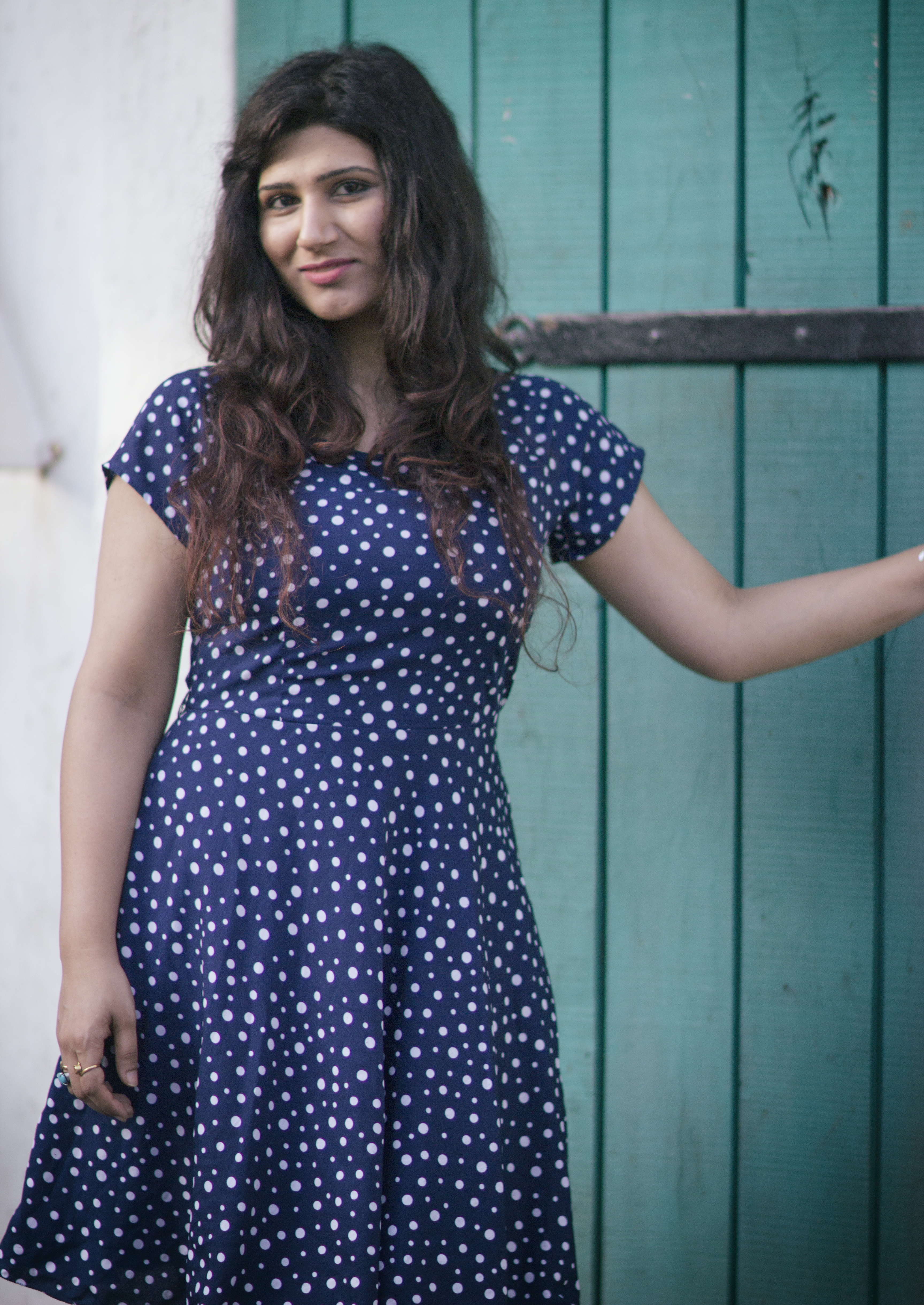 Shashaa Tirupati in Andheri after an audio recording in March 2017.